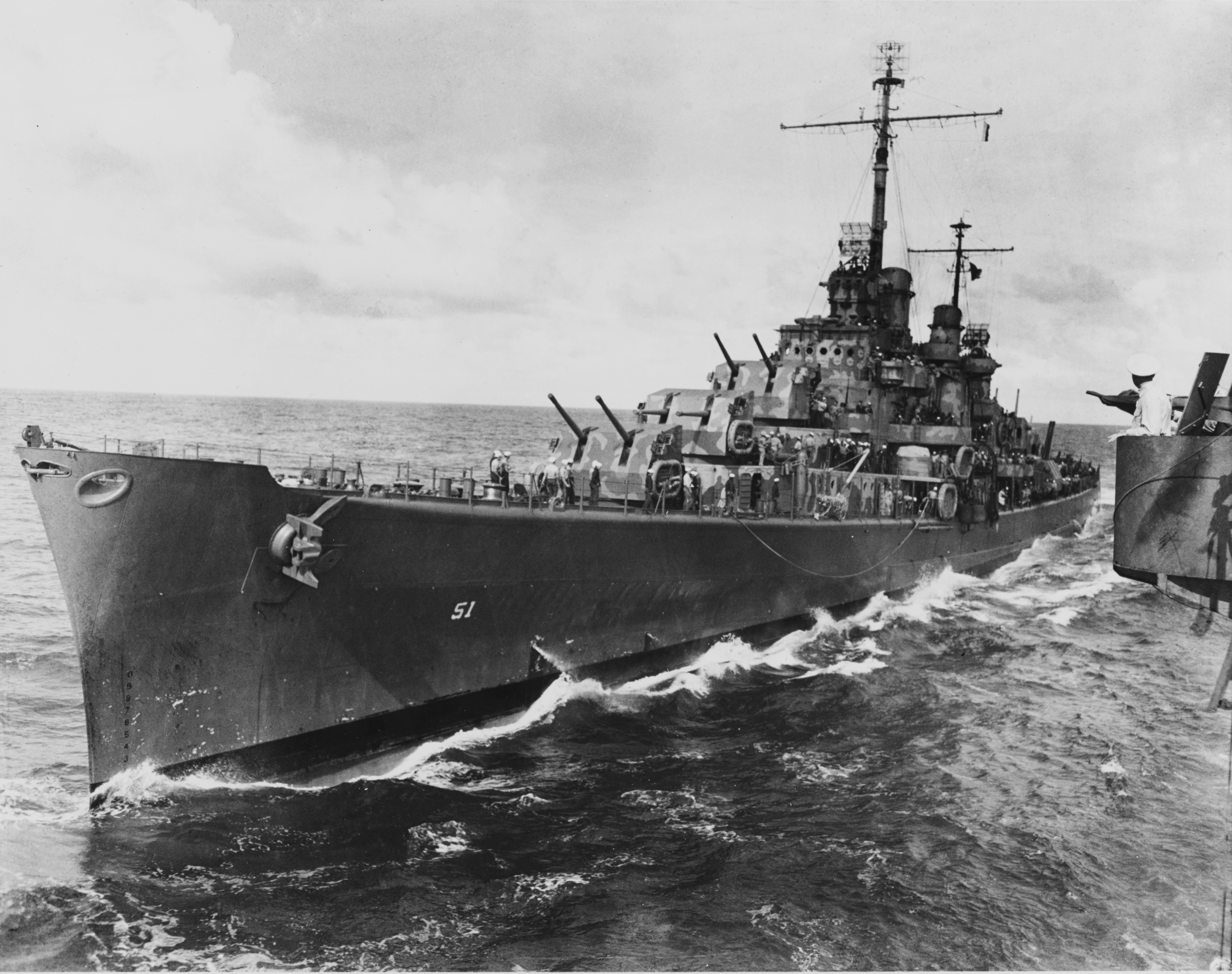 The U.S. Navy light cruiser USS Atlanta (CL-51) comes alongside the heavy cruiser USS San Francisco (CA-38) to refuel, 16 October 1942.